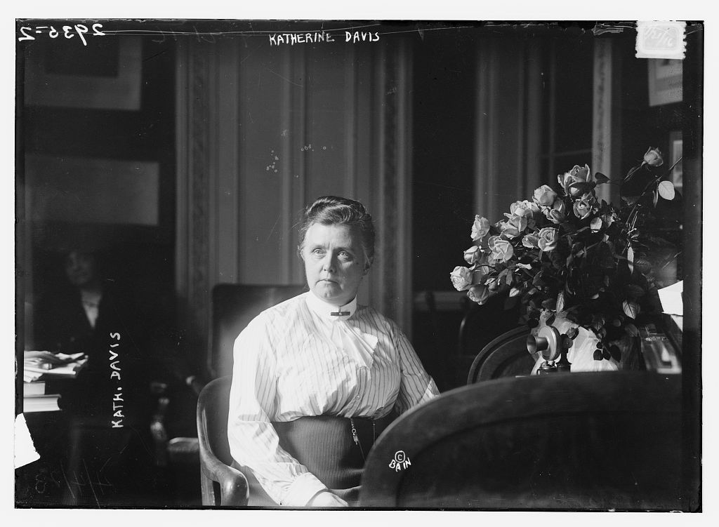 Bain News Service, publisher. Katharine Bement Davis in 1915 [between ca. 1910 and ca. 1915][1] 1 negative : glass ; 5 x 7 in. or smaller. Notes: Title from unverified data provided by the Bain News Service on the negatives or caption cards. Forms part of: George Grantham Bain Collection (Library of Congress). Format: Glass negatives. Repository: Library of Congress, Prints and Photographs Division, Washington, D.C. 20540 USA, General information about the Bain Collection is available at Persistent URL: Call Number: LC-B2- 2935-2